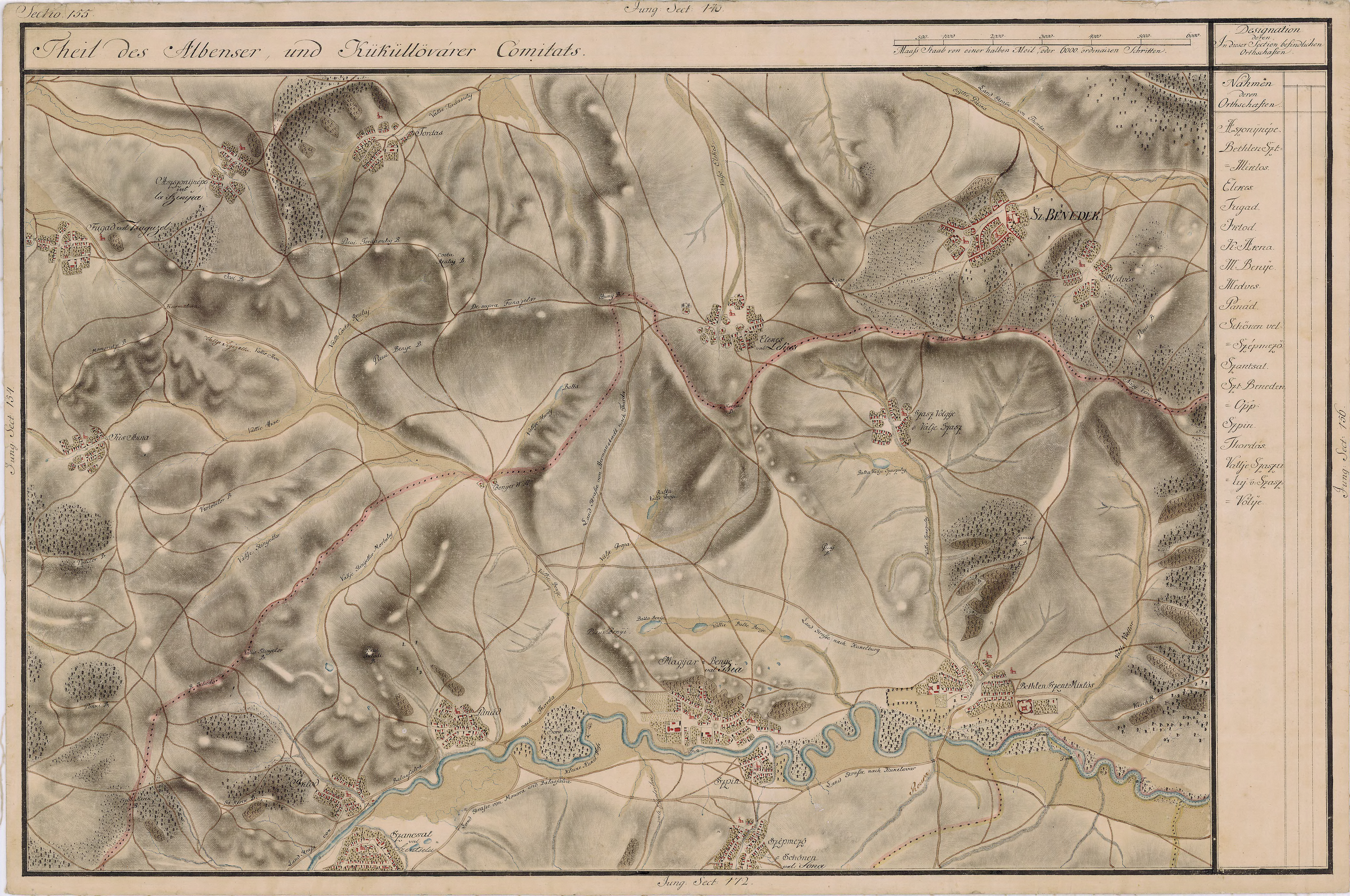 Grand Duchy of Transylvania, 1769-1773. Josephinische Landaufnahme pg.155